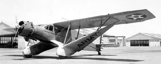 Bellanca C-27C "Airbus" transport aircraft of the United States Army Air Corps. Note extended NACA cowling compared to earlier C-27s Townsend ring cowlings.